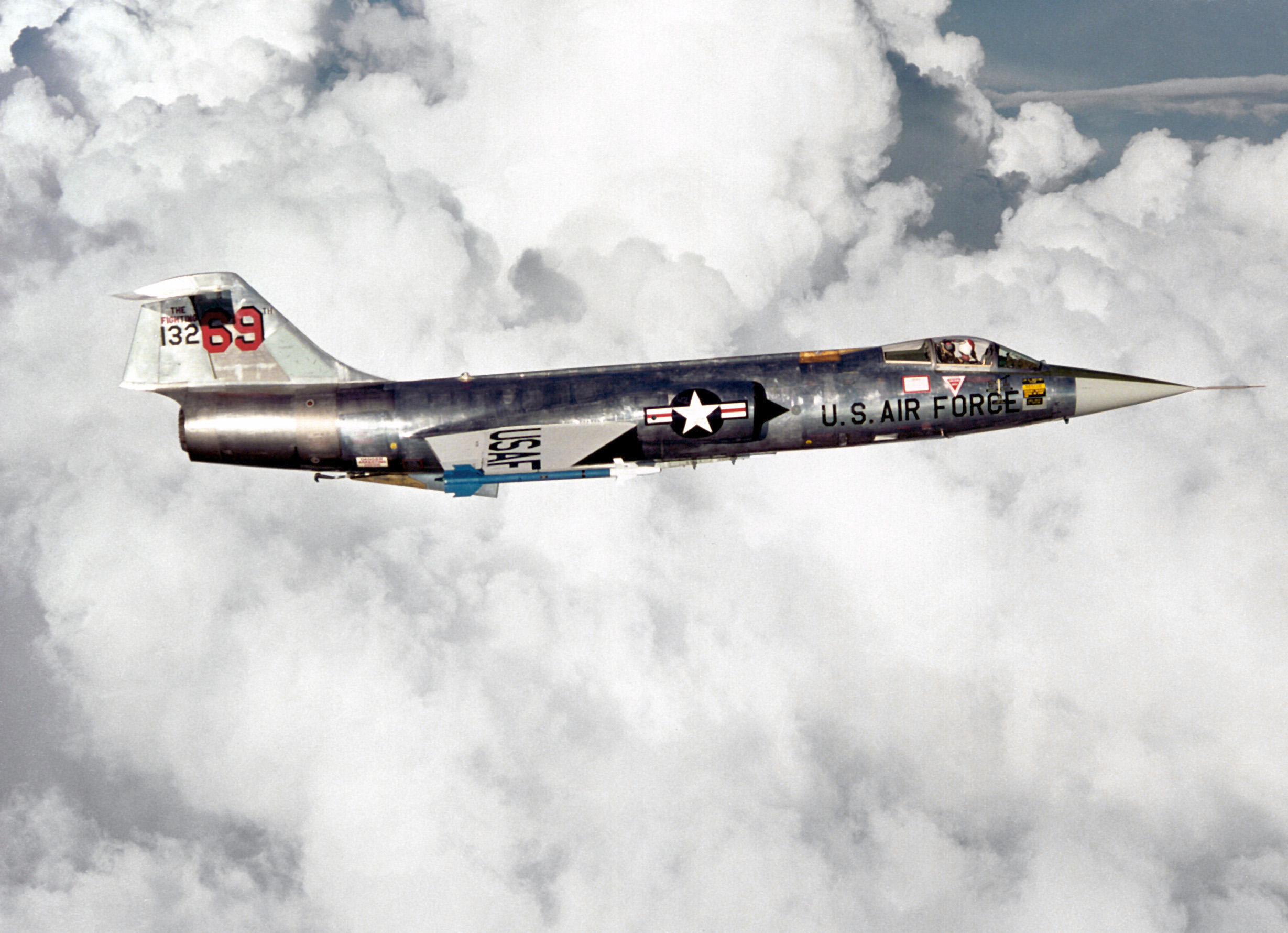 A Lockheed F-104G Starfighter (USAF serial number 63-13269) during a training flight on 1 August 1979, armed with two (training) AIM-9J Sidewinder air-to-air-missiles. The aircraft, from the 69th Tactical Fighter Training Squadron, 58th Tactical Training Wing, 12th Air Force, was used to train German Luftwaffe (air force) pilots at Luke Air Force Base, Arizona (USA). This aircraft had actually been licence built by Fokker in the Netherlands and had the original German registration "KG 102". After the retirement of the German Starfighters this aircraft was handed back to the U.S. and sold to Taiwan.